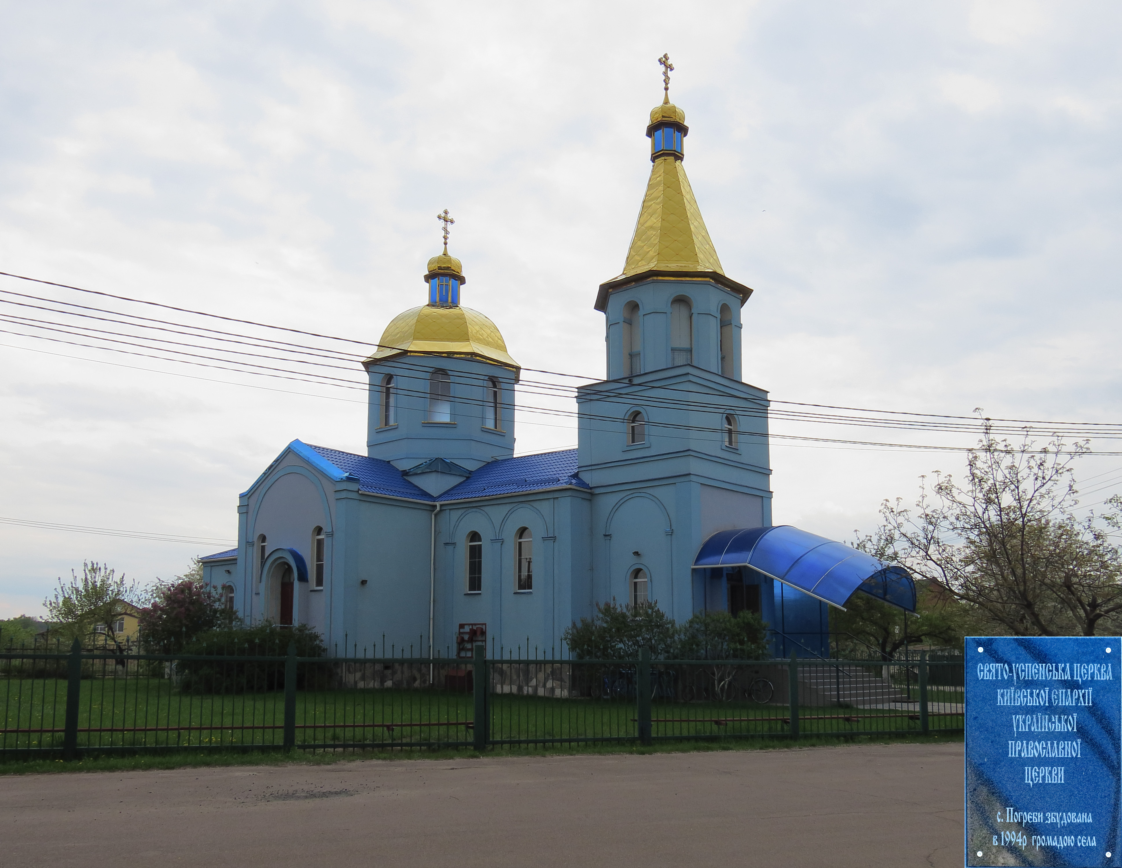 Church of the Dormition in Pohreby village, Brovary raion, Kiev oblast, Ukraine